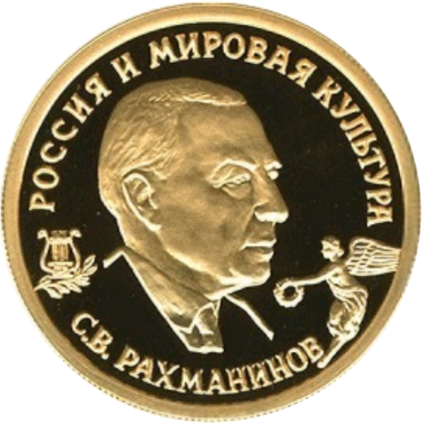 Commemorative coin - Sergei Rachmaninoff